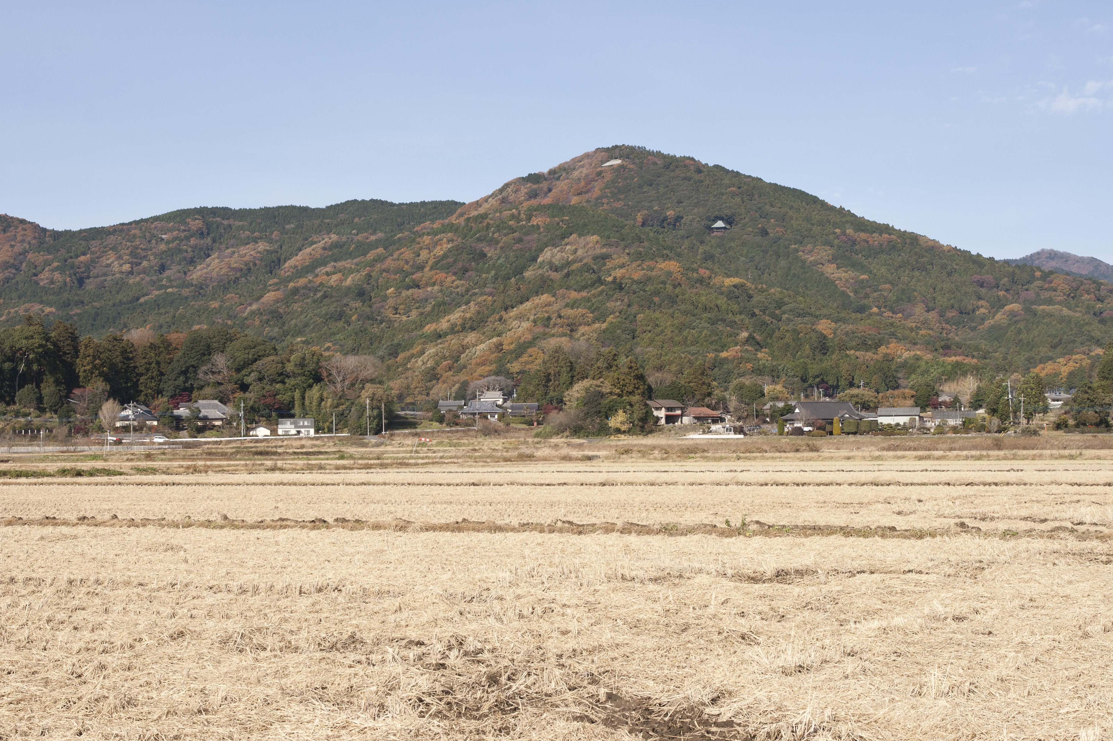 Mount Minedera, Ishioka City, Ibaraki Pref., Japan